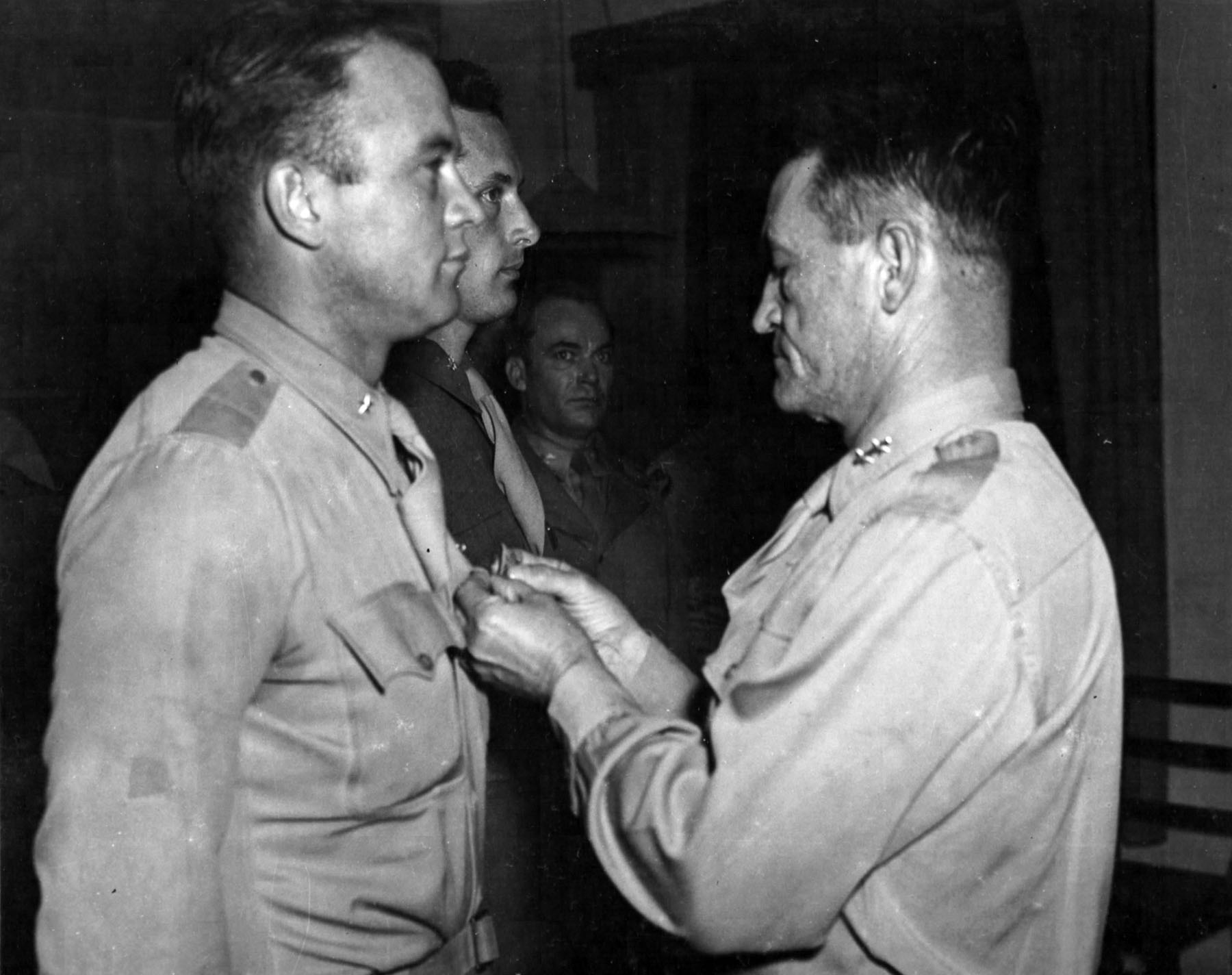 Brig. Gen. Clinton D. "Casey" Vincent receives an Oak Leaf Cluster to his Air Medal from Maj. Gen. Claire L. Chennault, commander of the 14th Air Force, in December 1944.